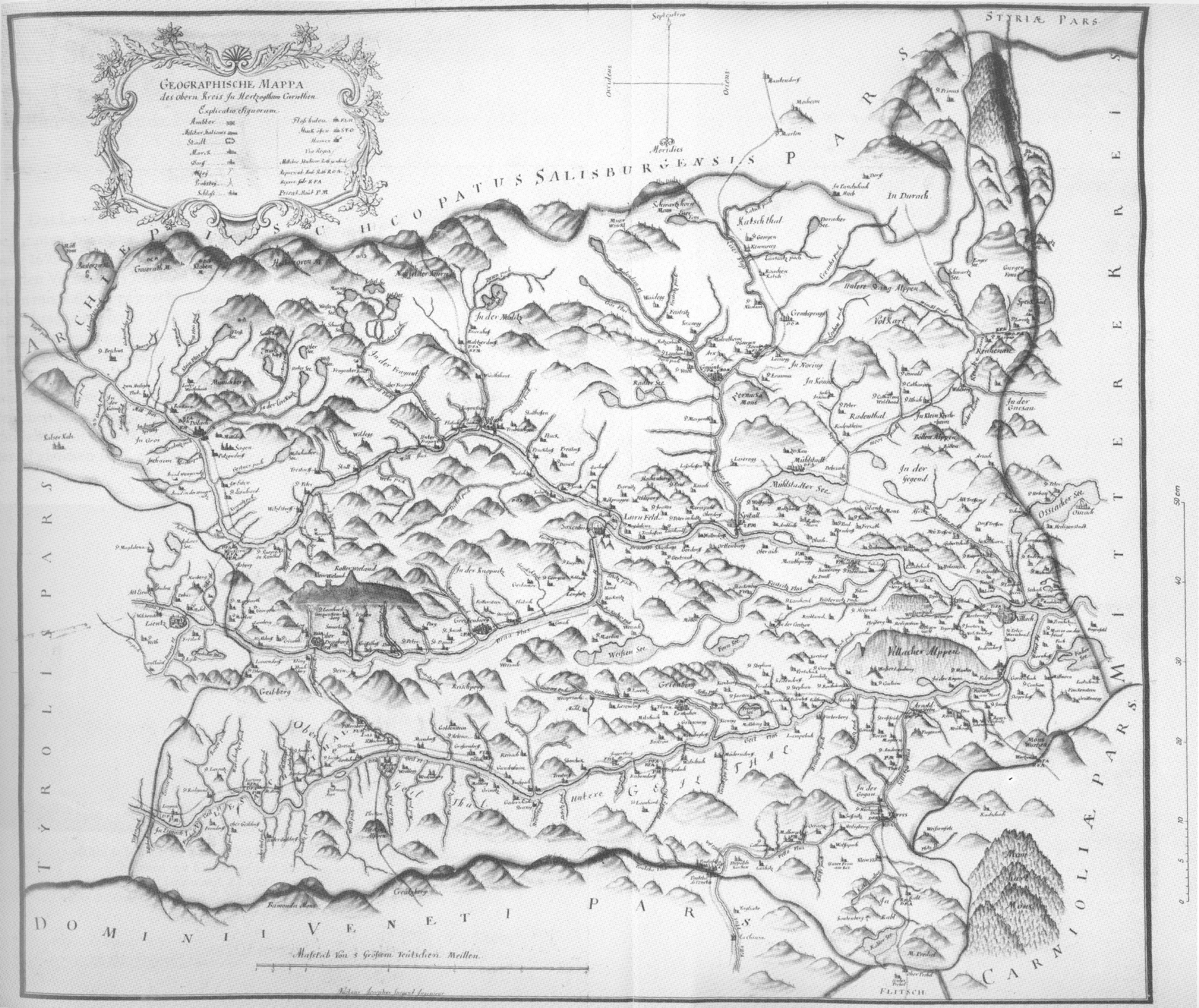 Topographic map of Upper Carinthia (Austria / EU) around 1750. This in original coloured map was made by N.J.Surgant and probable printed by Seutterische Werkstatt in Augsburg, Germany.